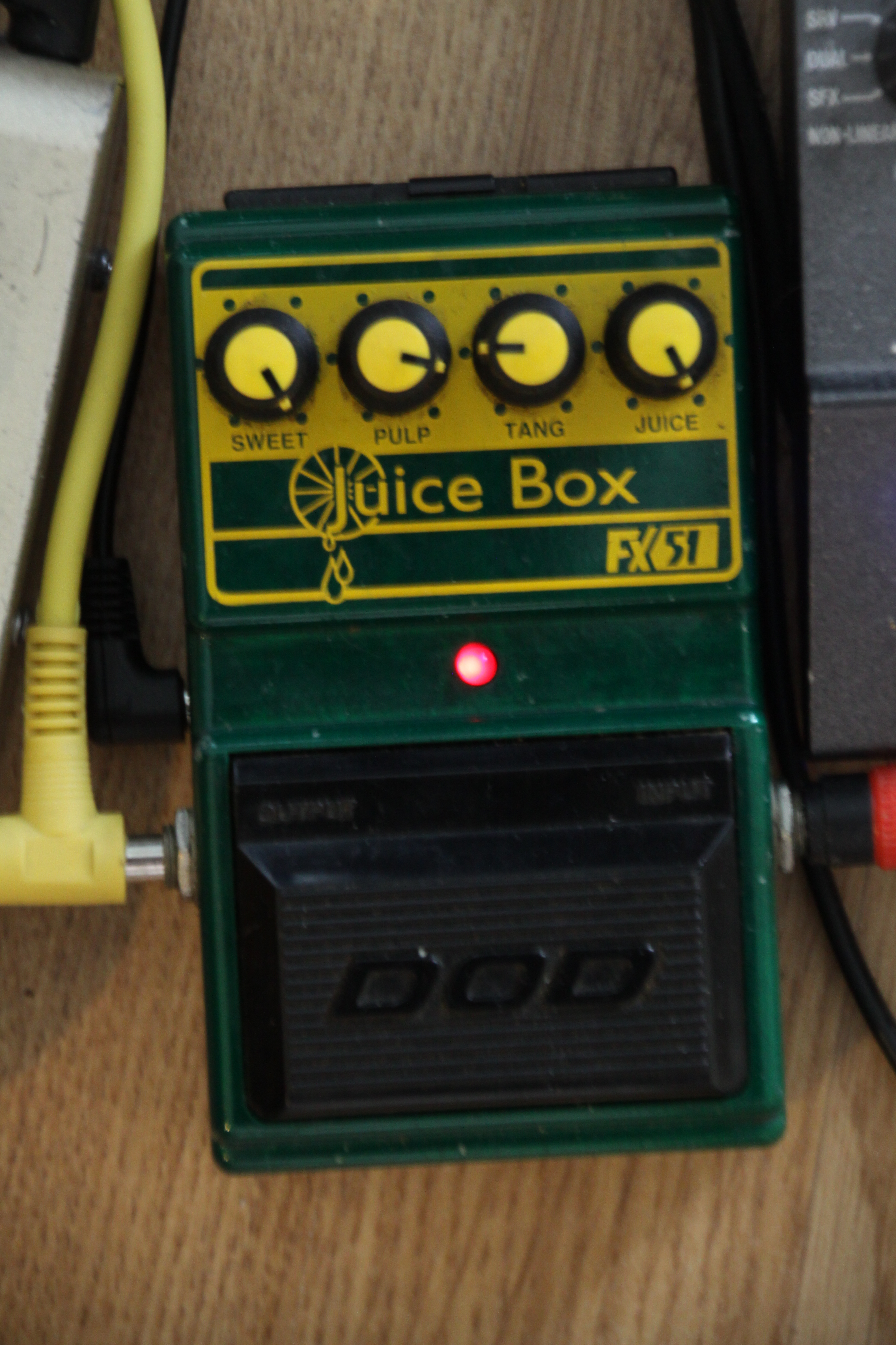 Dod Juice Box -overdrive/booster guitar fx-pedal. The model is discontinued.